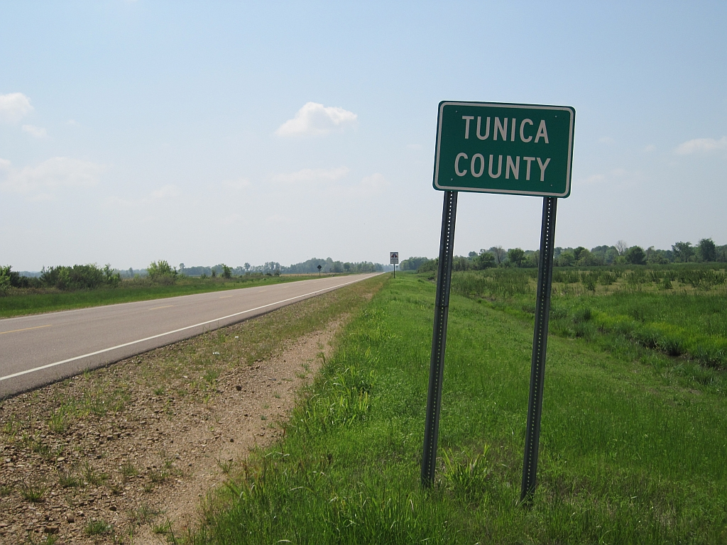 Tunica County, Mississippi sign